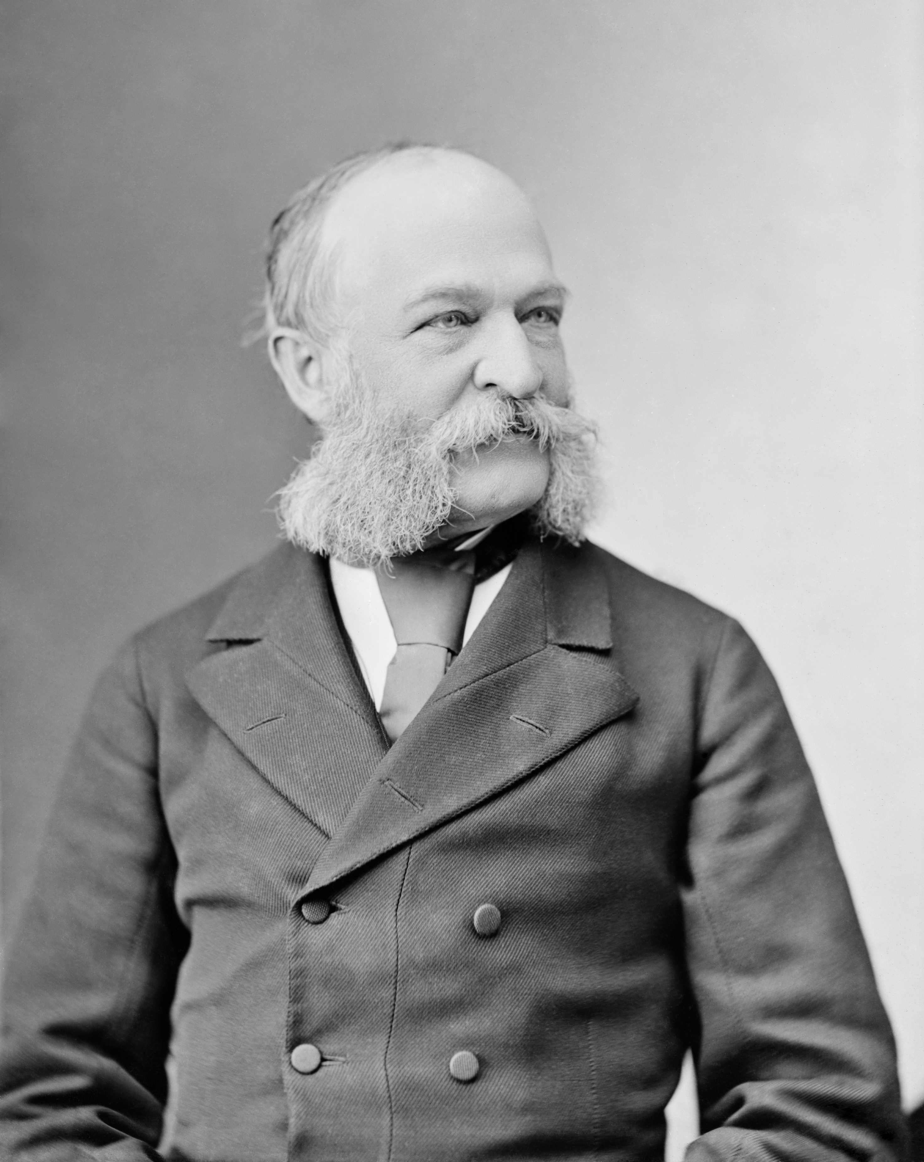 Republican Levi Parsons Morton of N.Y., the 22nd Vice President of the United States under Benjamin Harrison (1889-1893); also Representative for New York's 11th district (1879-1881), United States Minister to France under James A. Garfield (1881-1885), and, after his Vice-Presidentship, Governor of New York (1895–1896). Photograph from the Brady-Handy collection of the Library of Congress, restored by Adam Cuerden